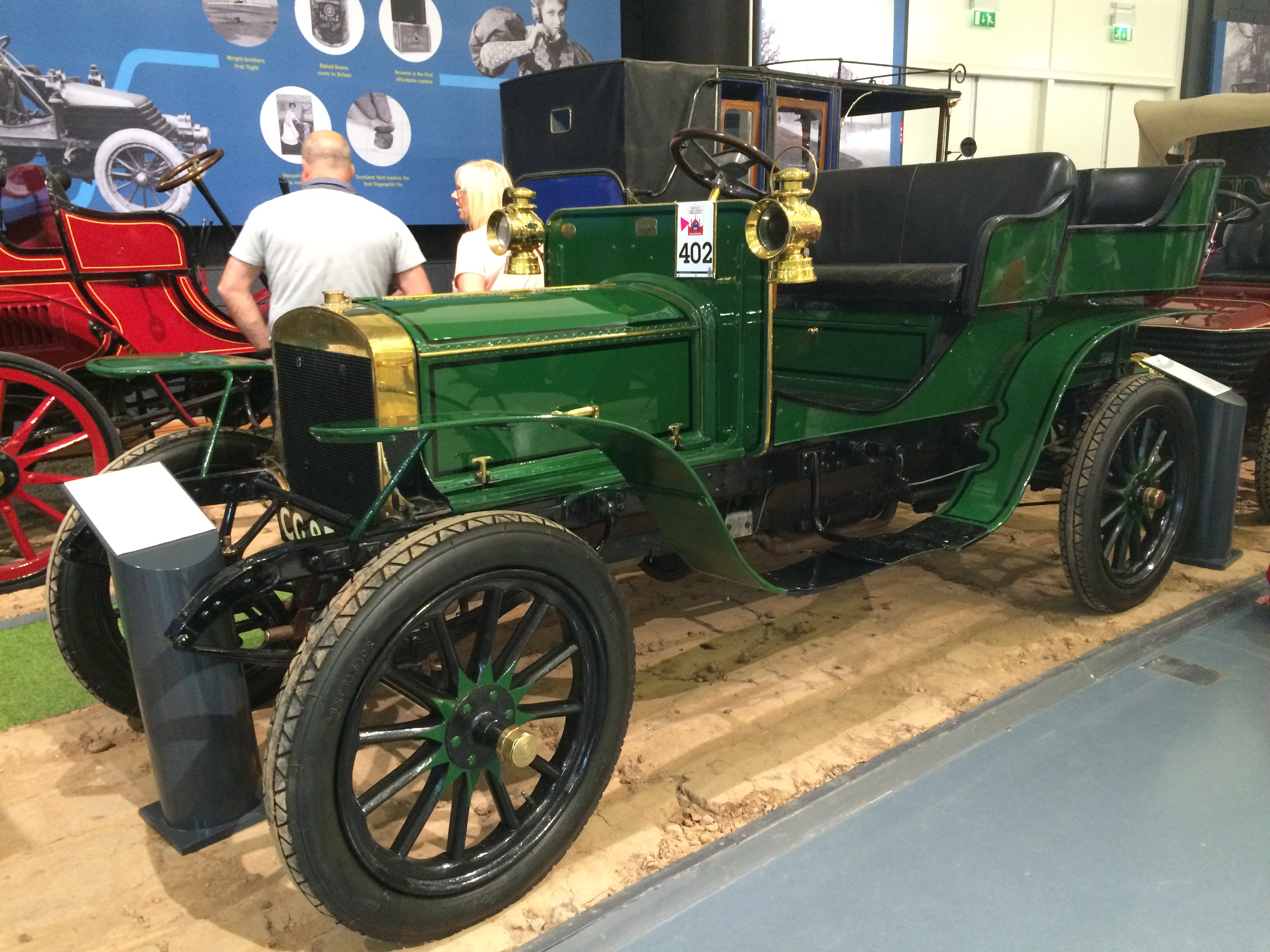 1904 Thornycroft 20hpBritish Motor Museum